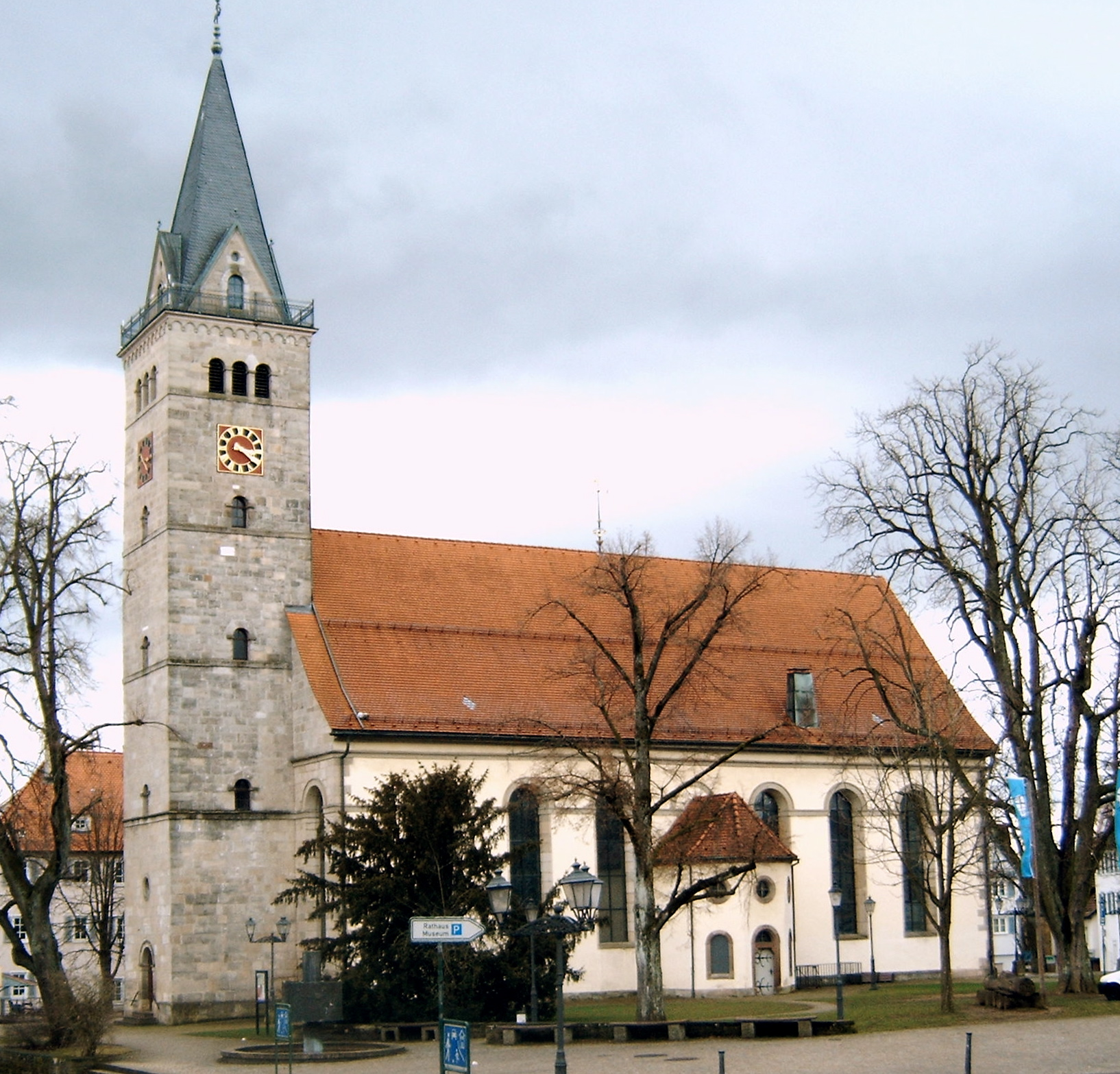 Saint Gall’s church, Welzheim